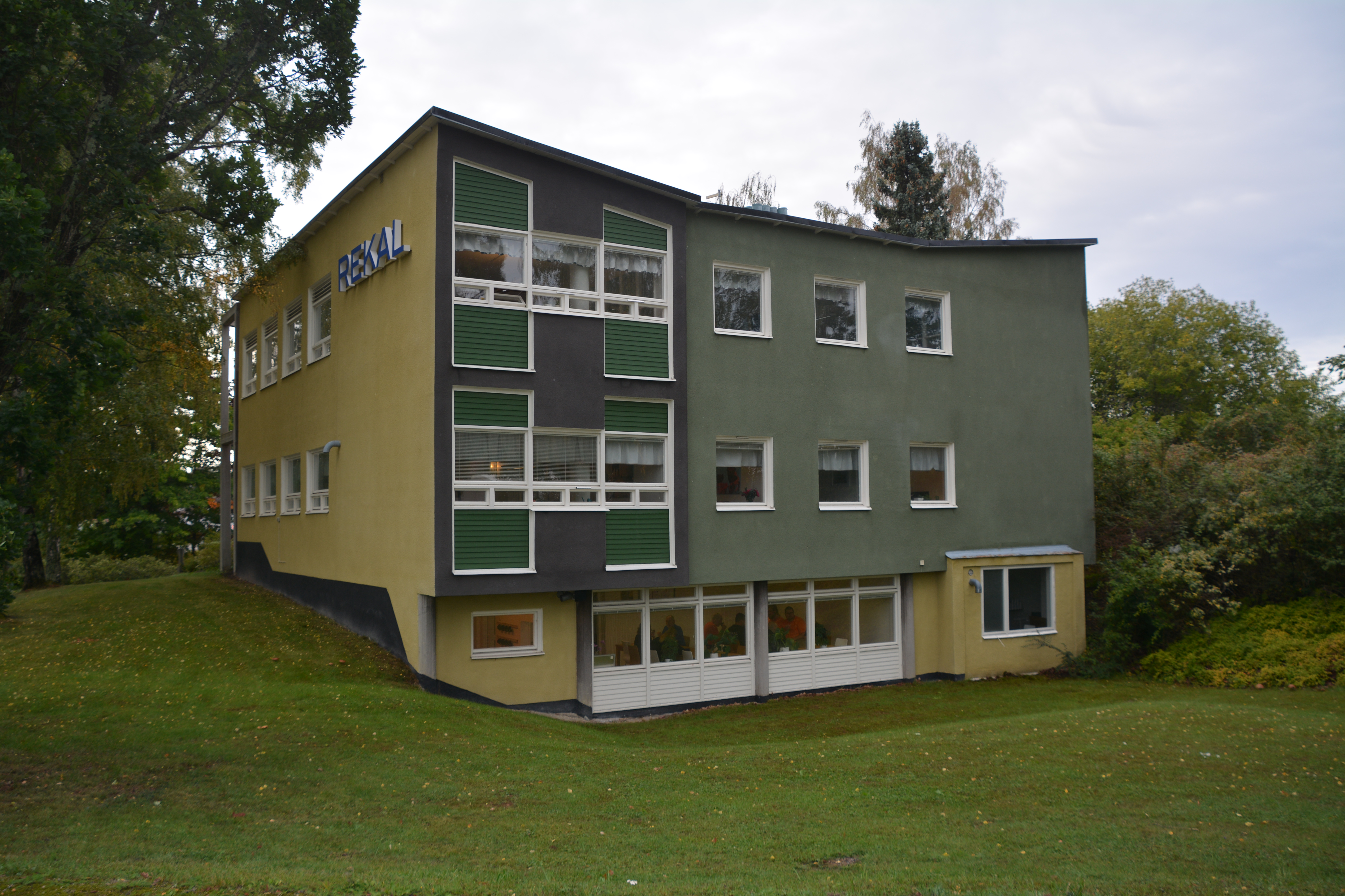 Tvålfabriken i Gnesta, Arkitekt: Ralph Erskine